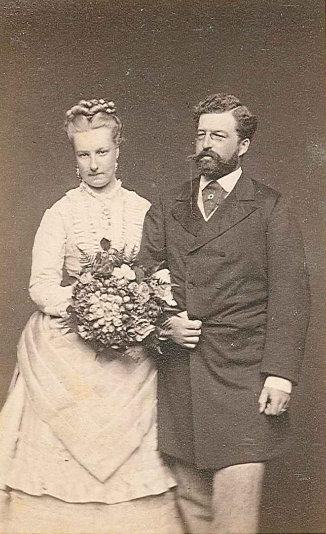 Prince Philipp of Coburg and his wife Princess Louise nee Princess of Belgium